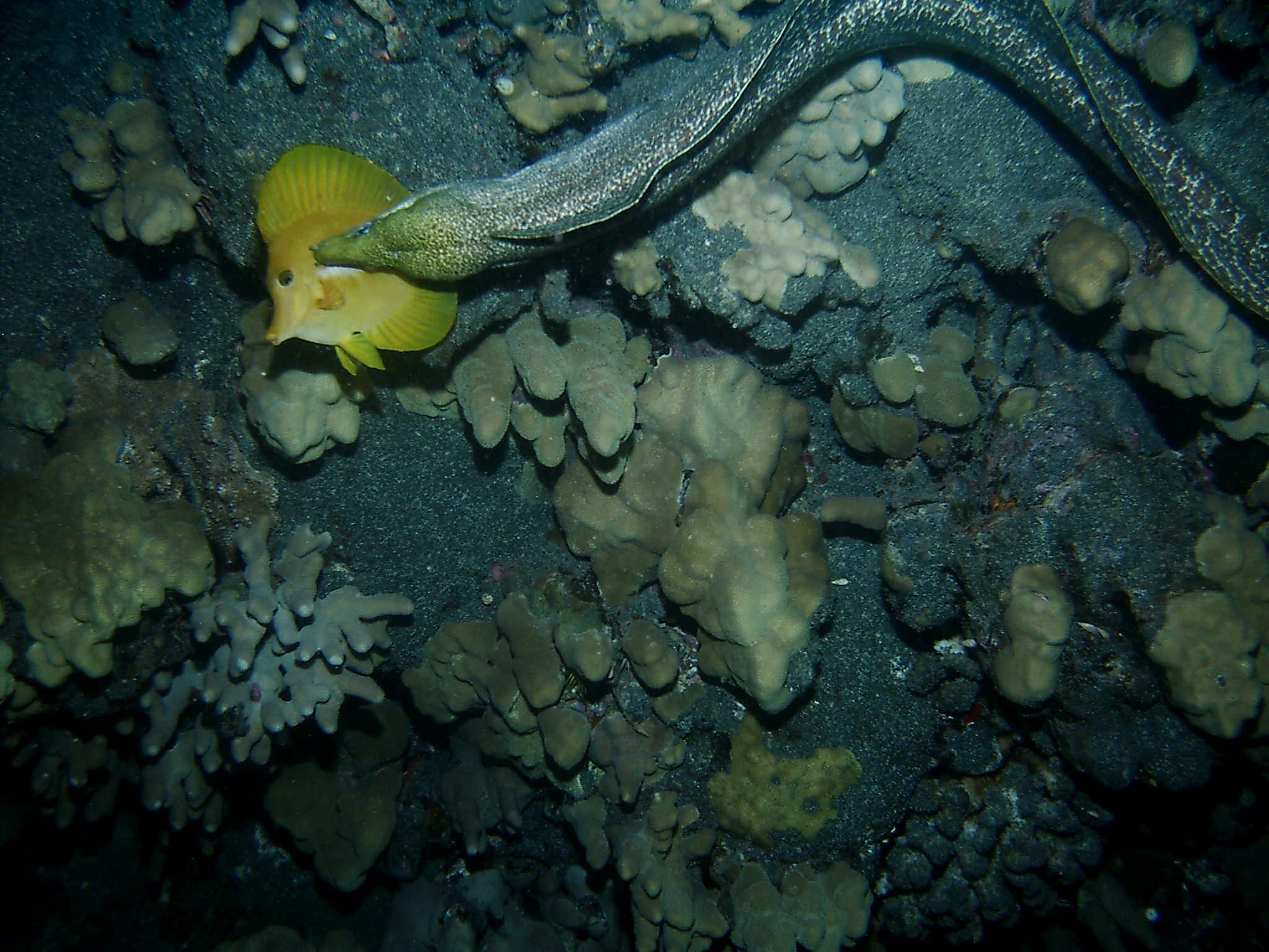 Undulated moray, Gymnothorax undulatus, eating a yellow tang, Zebrasoma flavescens. Taken scuba diving at night off the coast of Maui. December 2005.